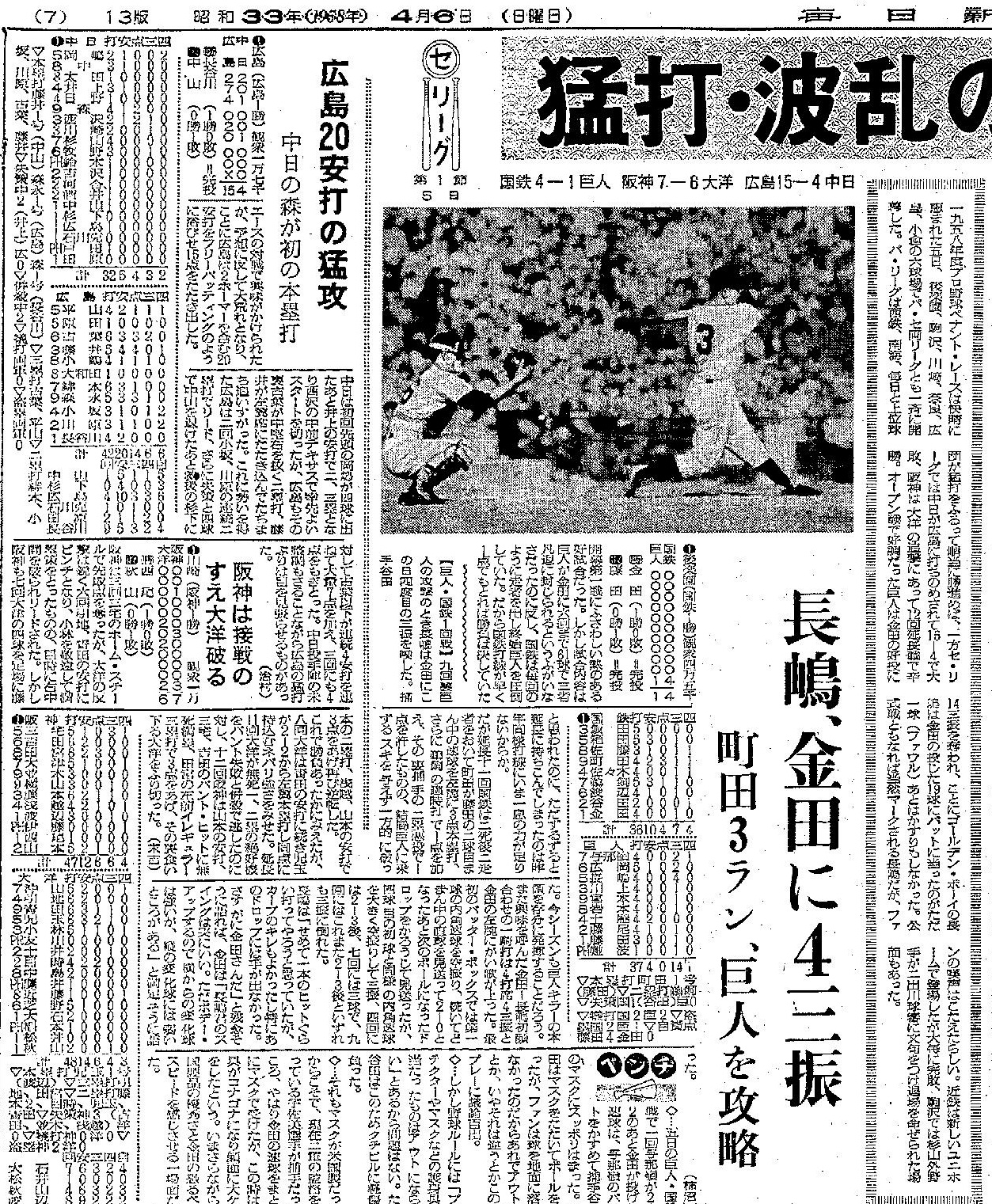 Nagashima made his professional debut in April 1958, and struck out in all four of his at-bats against Masaichi Kaneda